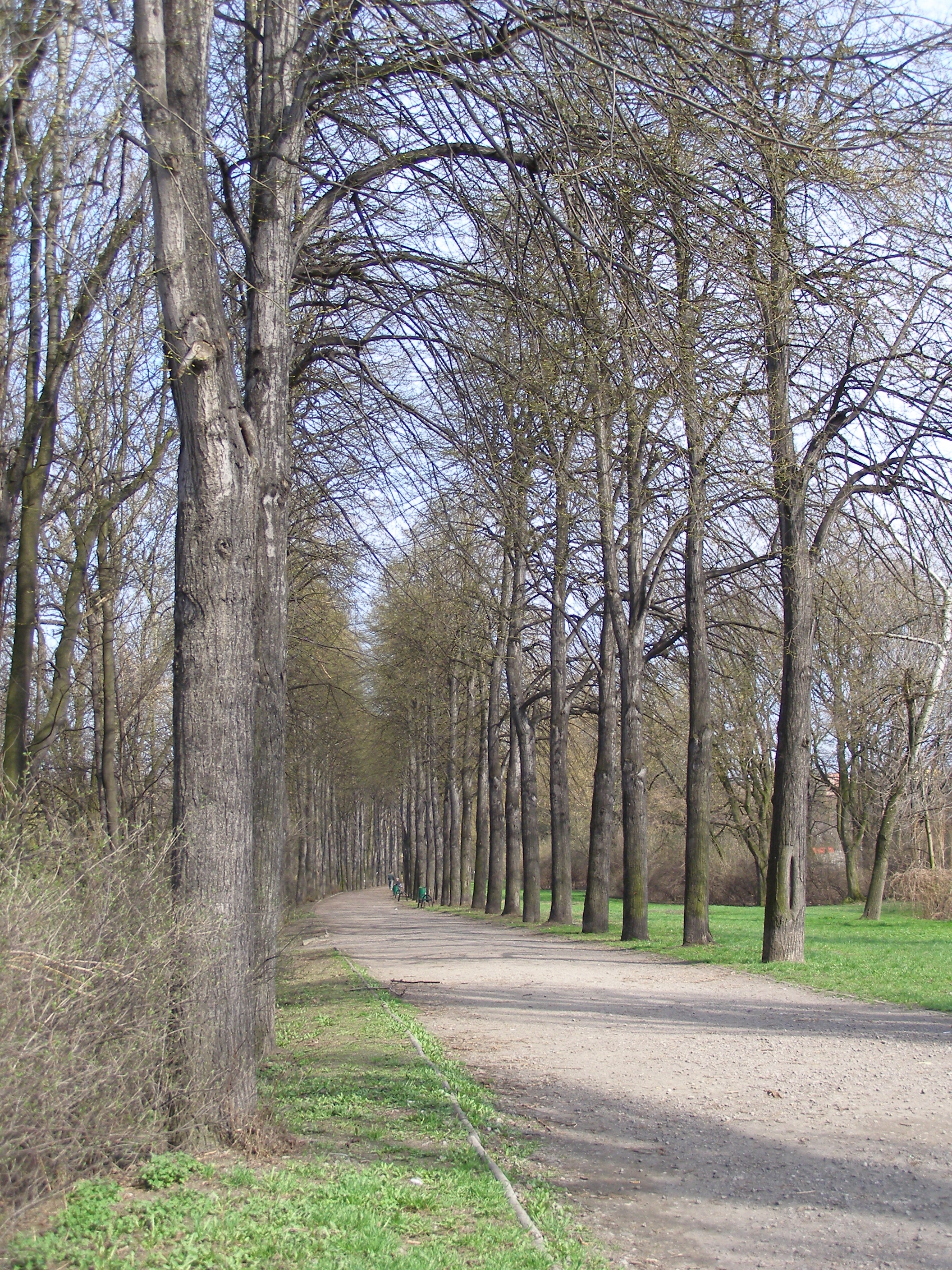 Zabrze - Fallen Heroes' Park